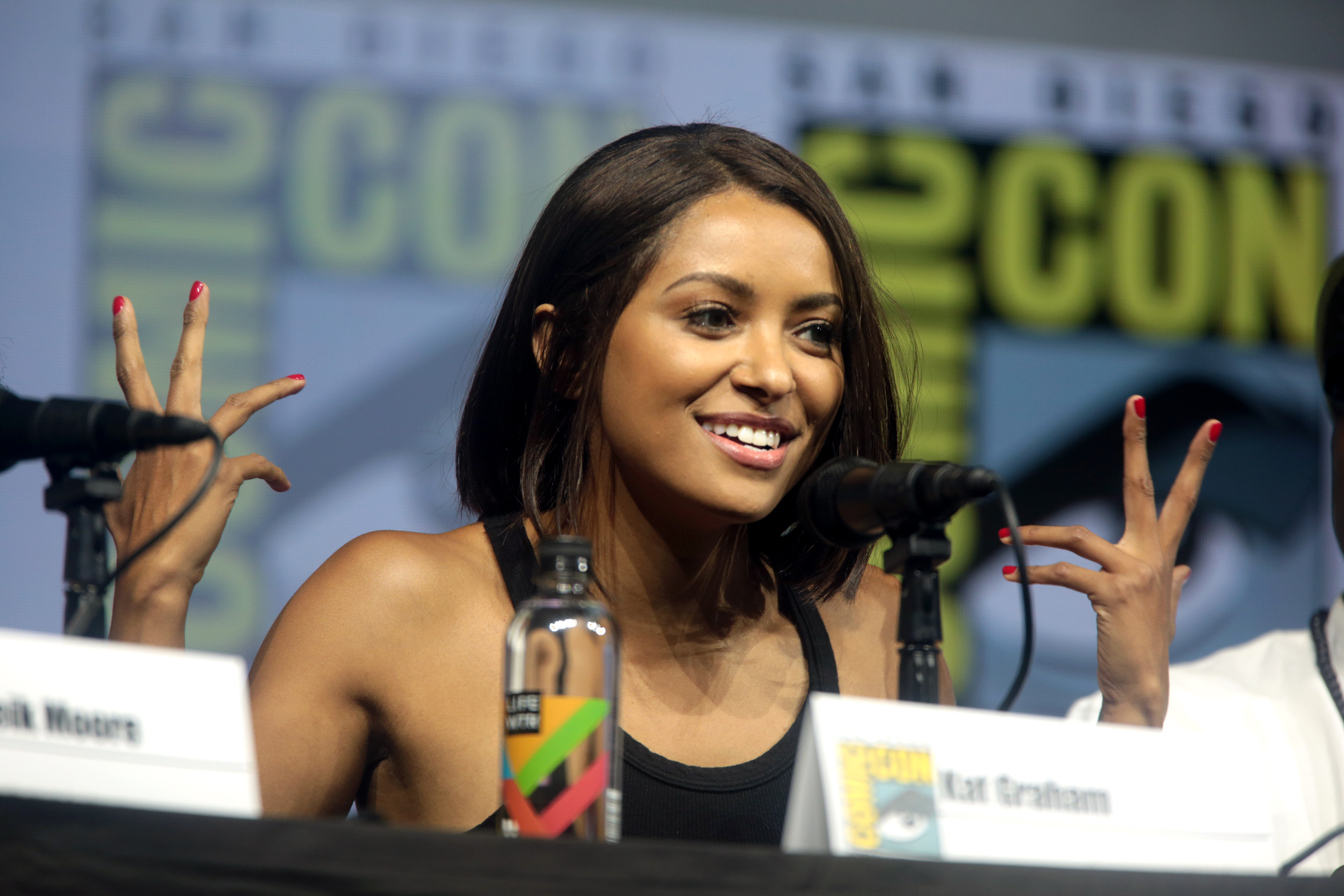 Kat Graham speaking at the 2018 San Diego Comic Con International, for "Cut Throat City", at the San Diego Convention Center in San Diego, California.